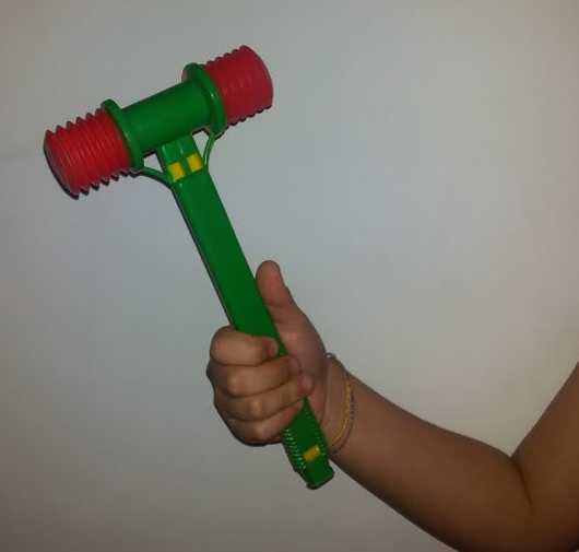 Plastic Hammer toy